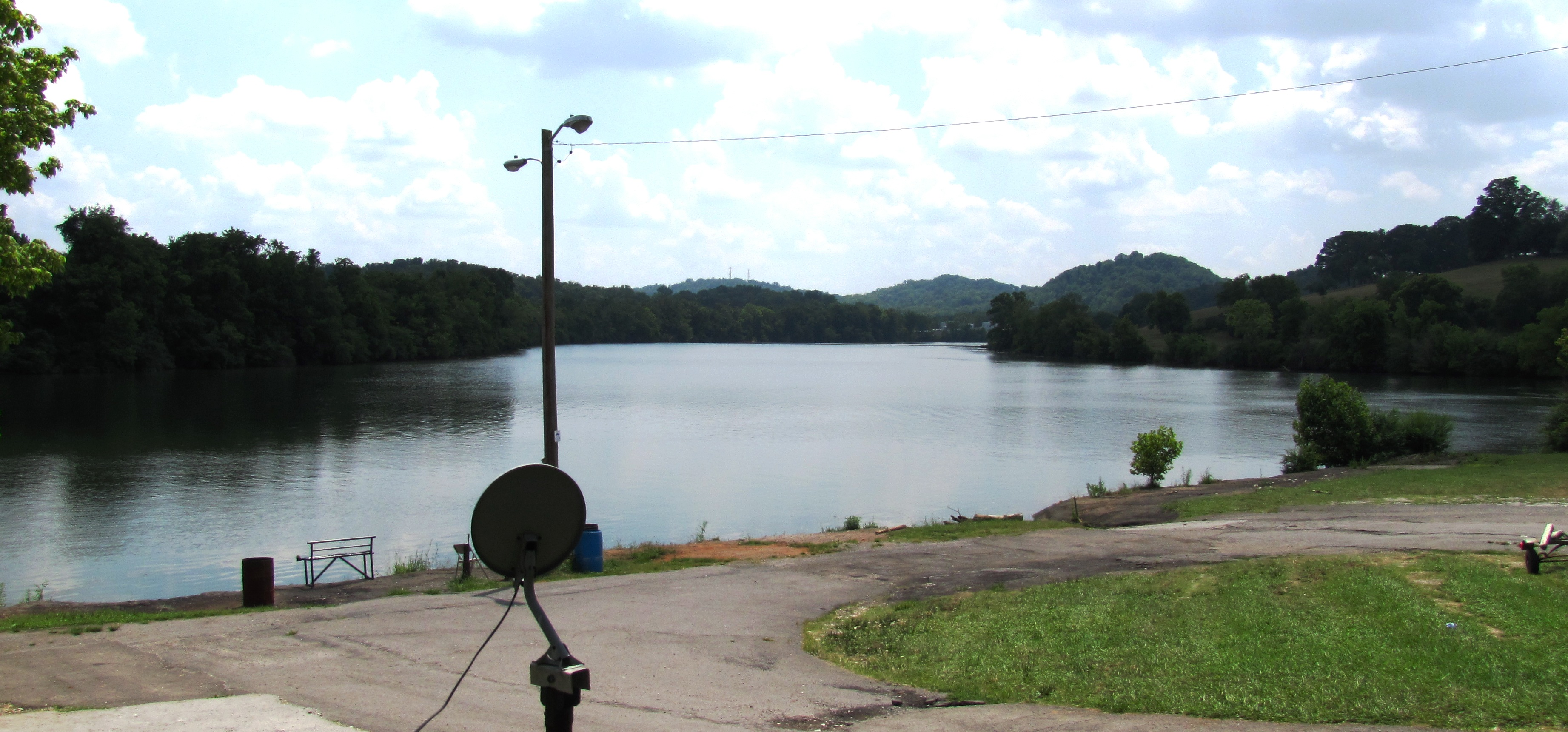 "Forks of the River" in eastern Knoxville, Tennessee, USA. In the photo, the French Broad River enters on the left and joins the Holston River, which enters on the right, to form the Tennessee River at the center.